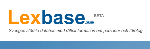 Logo of Swedish website Lexbase.